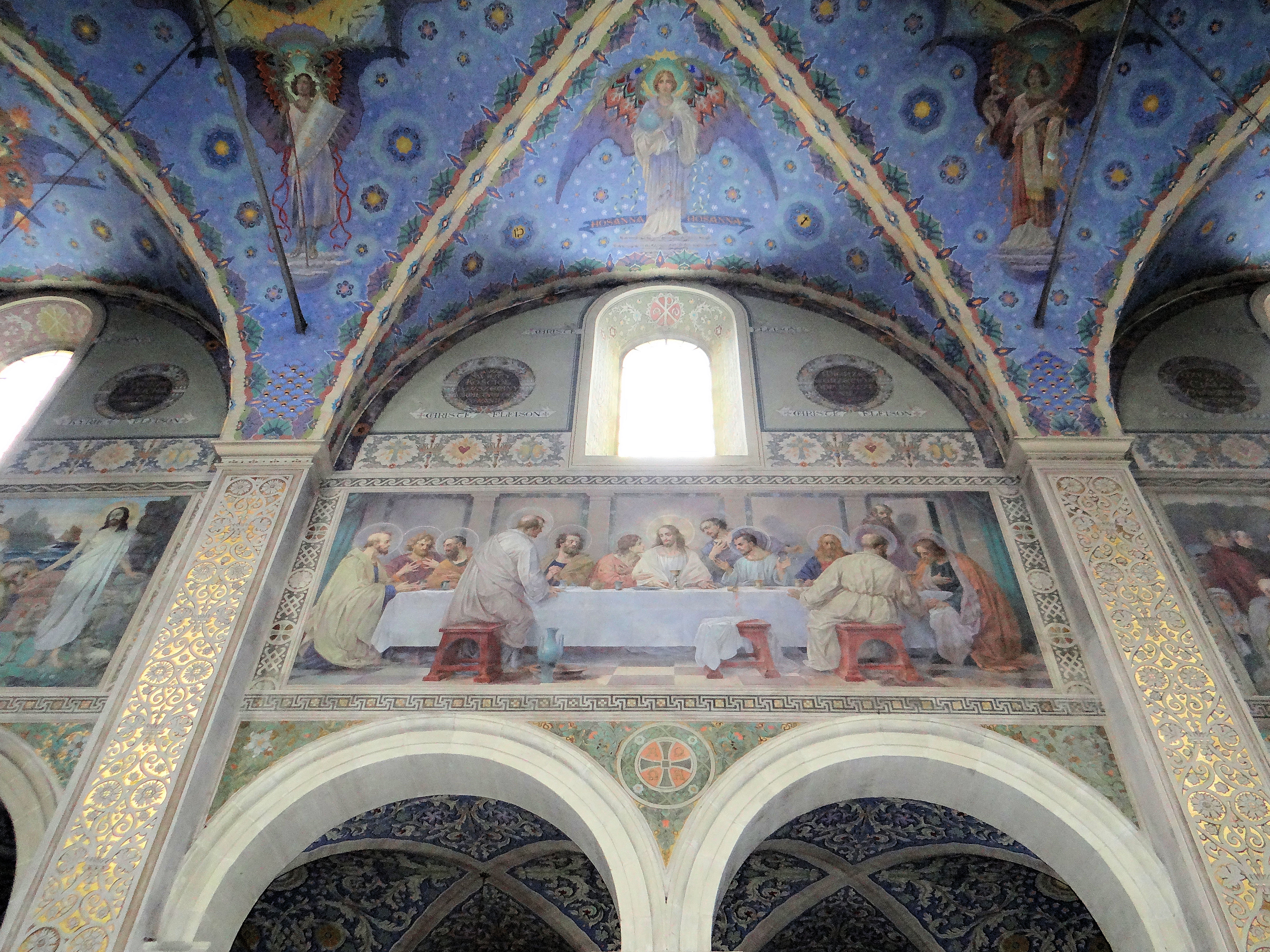 Vaulting in Płock Cathedral